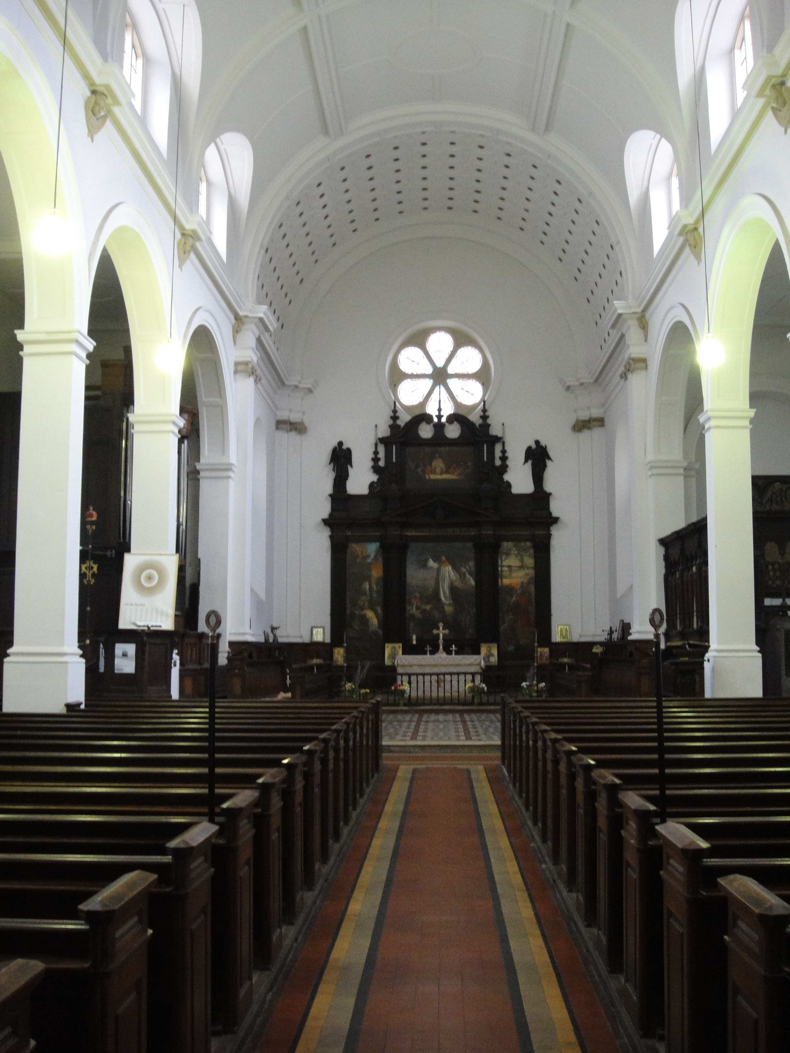 The interior of the church of St Thomas Becket, Bristol.